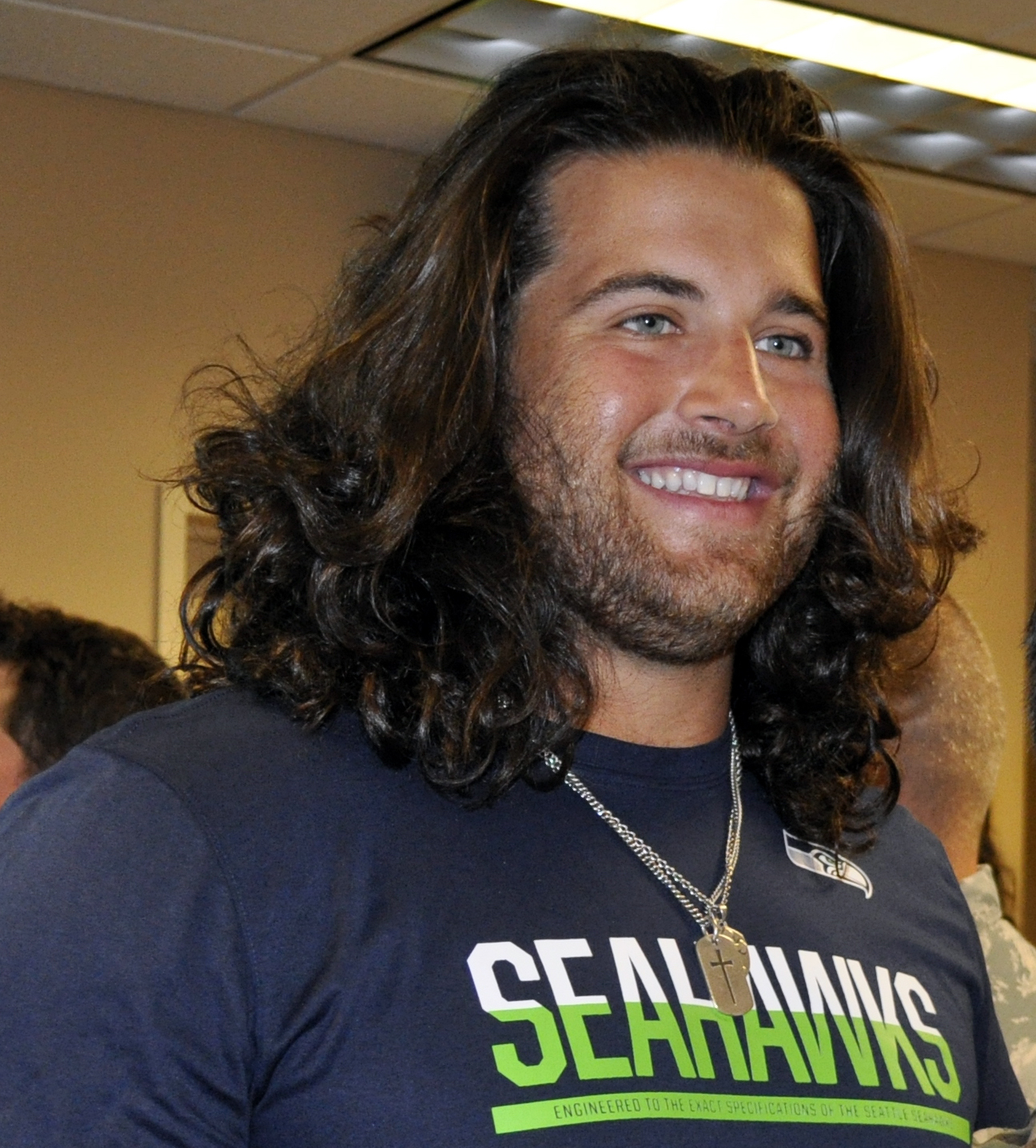 Seattle Seahawks center, Joey Hunt, poses for a photo with a member of Oregon Army National Guard on July 15, 2016.